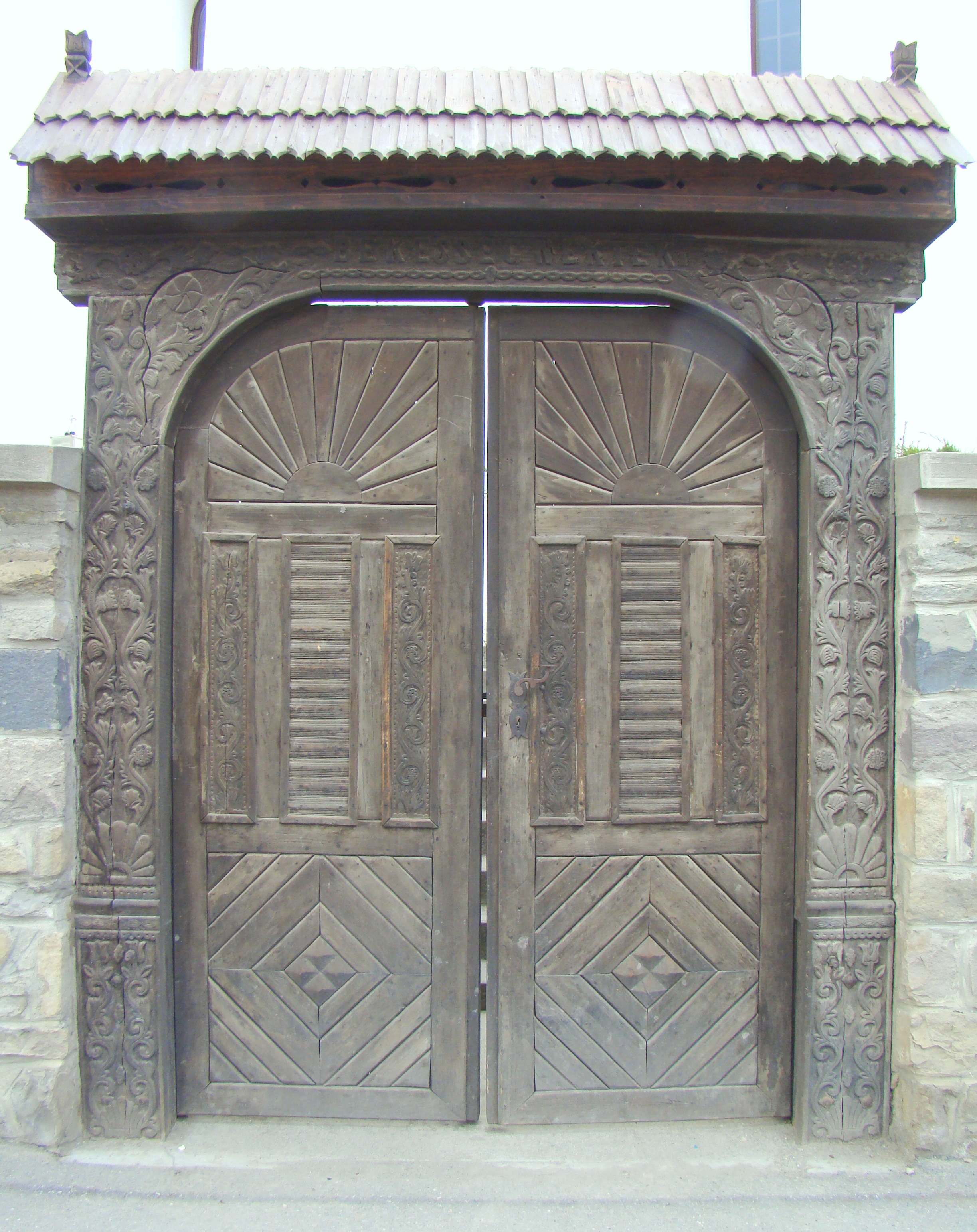 Reformed church in Albești, Mureș county, Romania